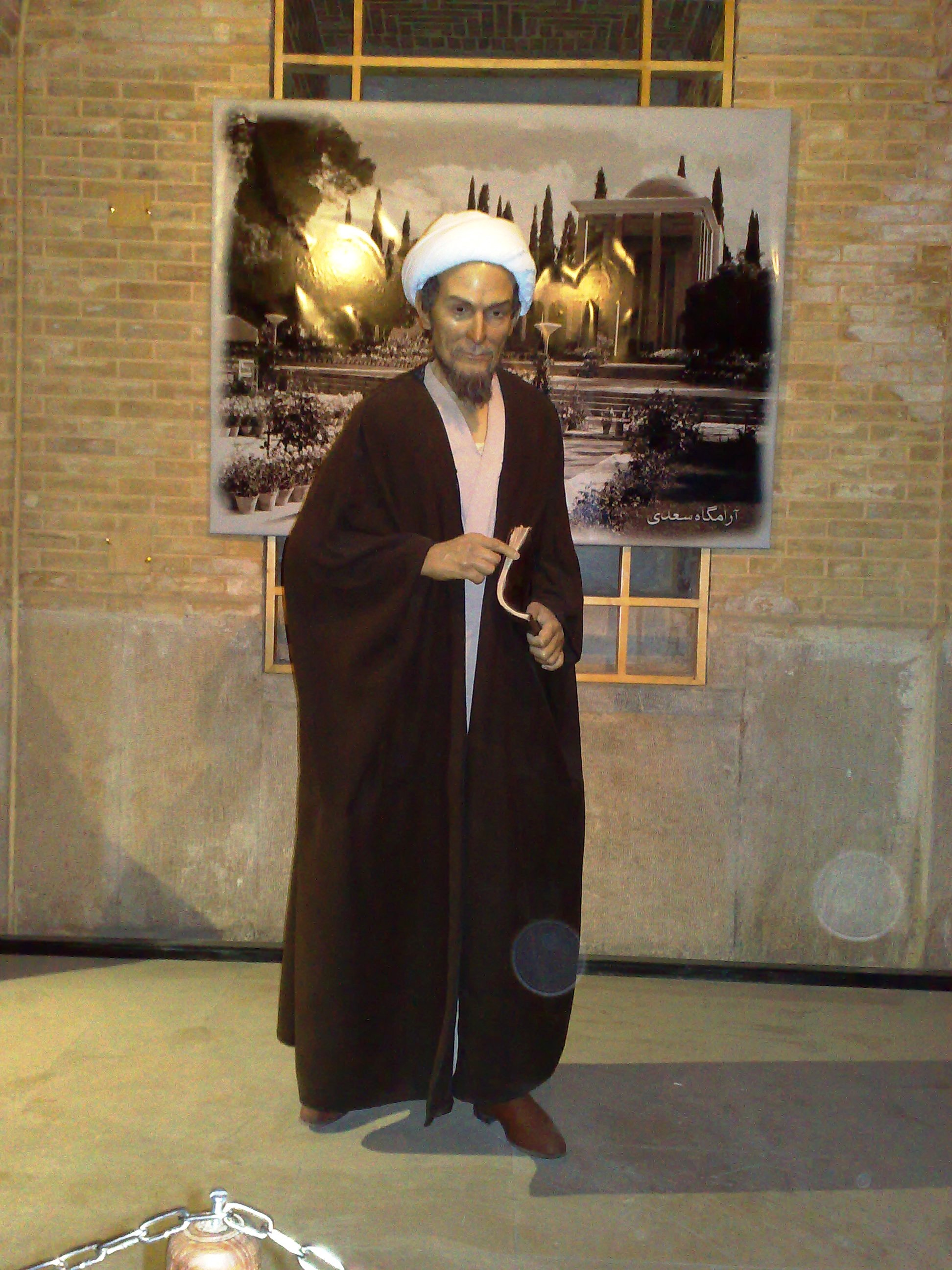 Sa'di Shirazi